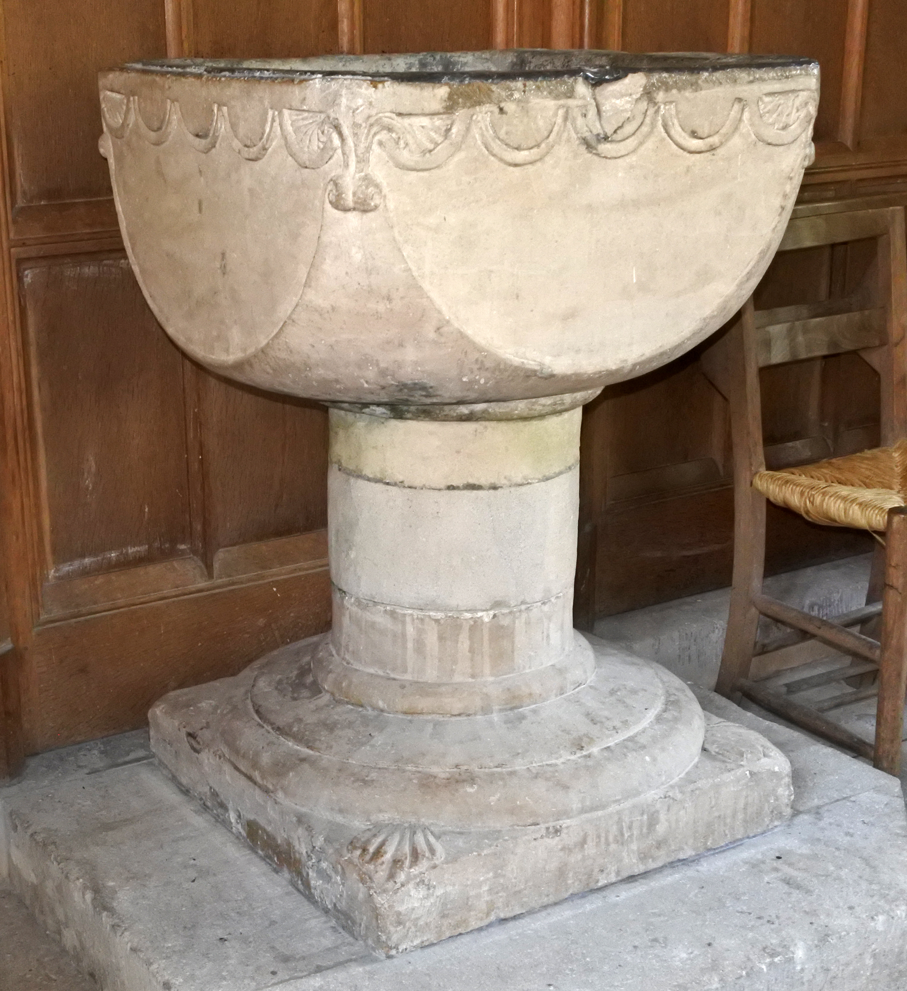 Baptismal font of Dundry stone in Church of St. Margaret, Hinton Blewett, Somerset, England.